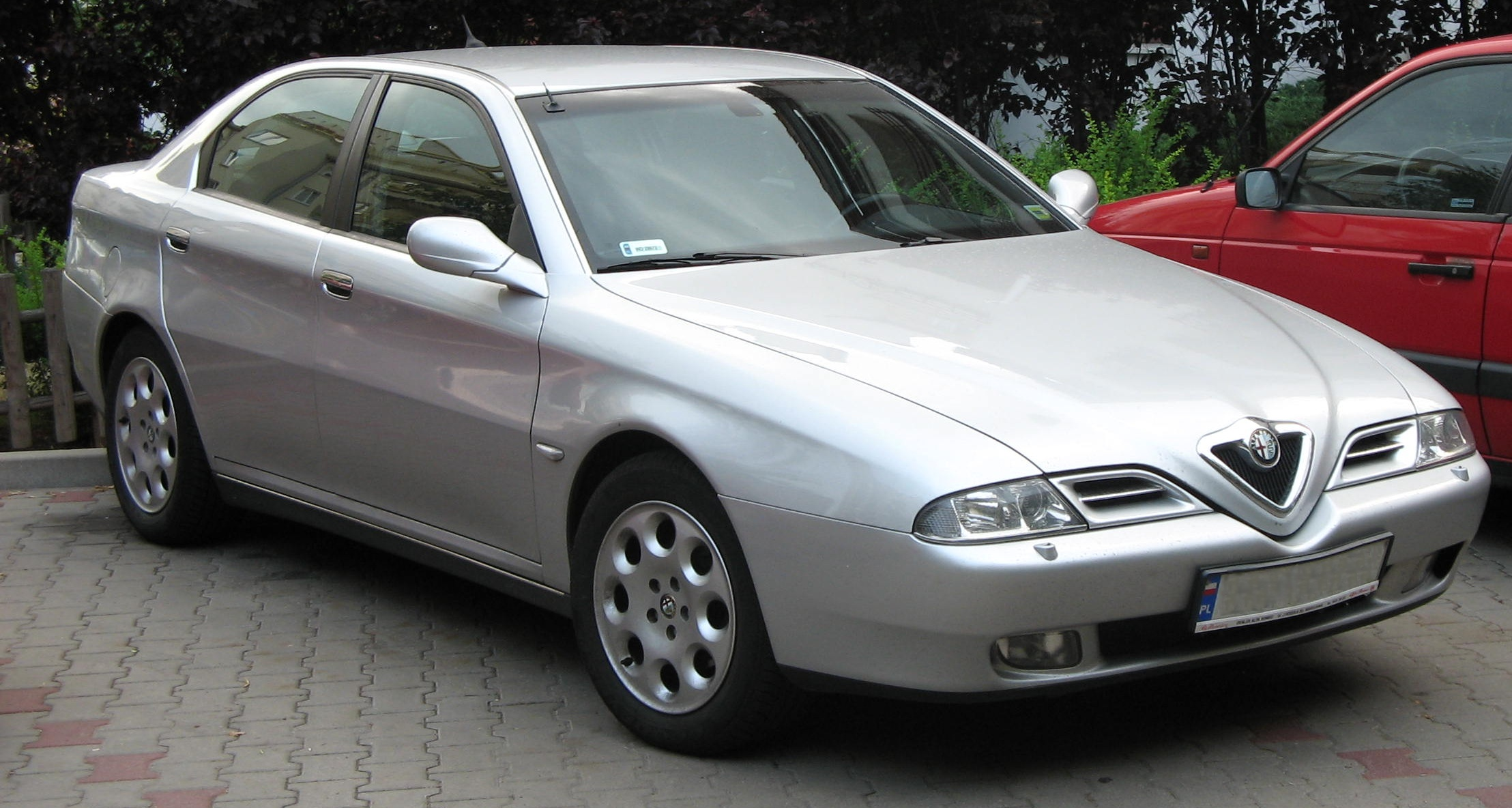 Alfa Romeo 166, silver, photographed in Warsaw